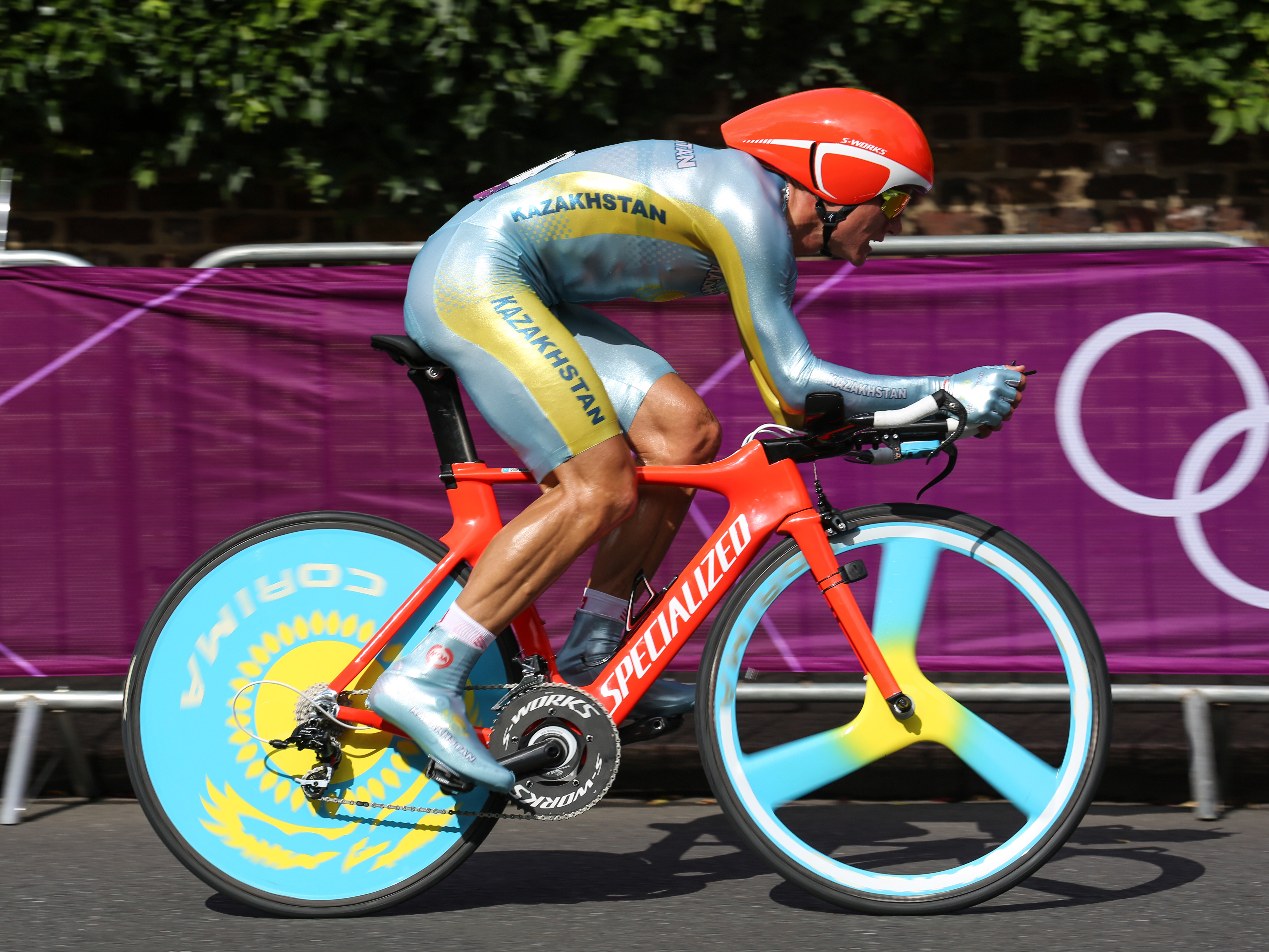 Alexander Vinokourov competing in the London 2012 Men's Olympic Time Trial.